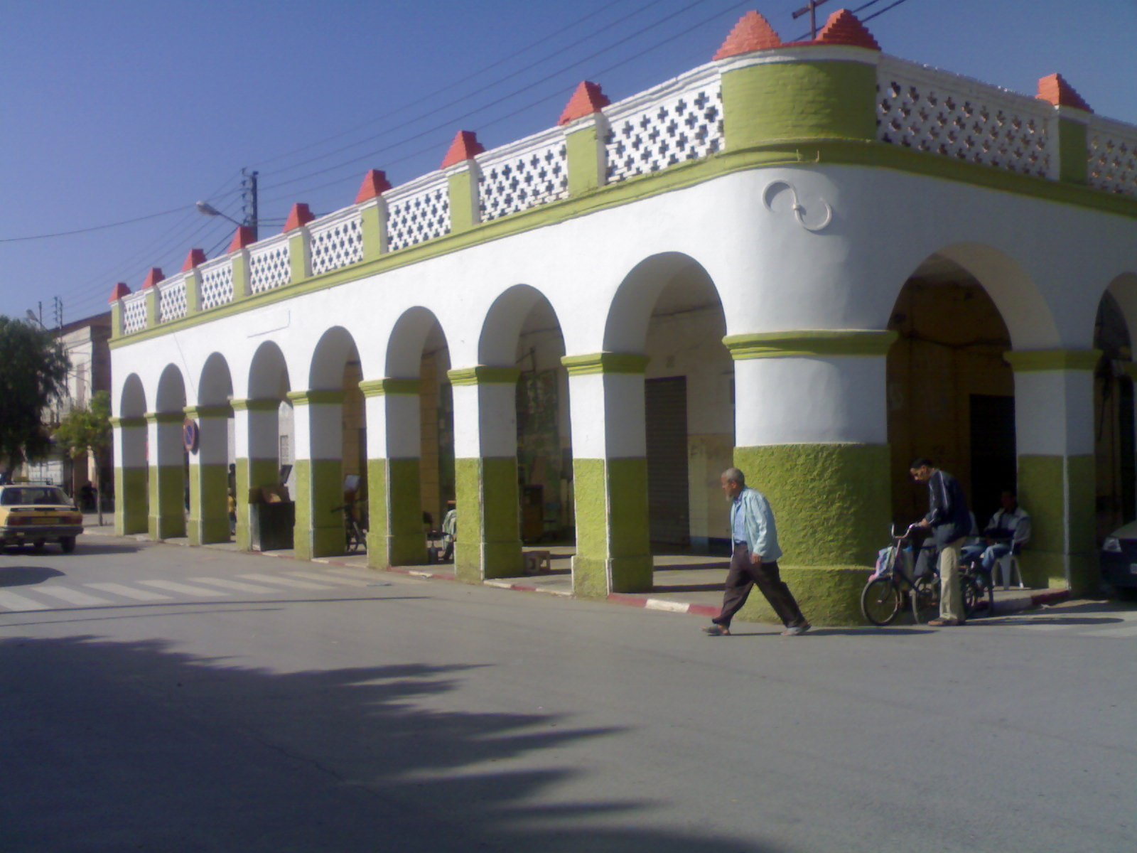 Mohammadia, Mascara Ville en Algérie